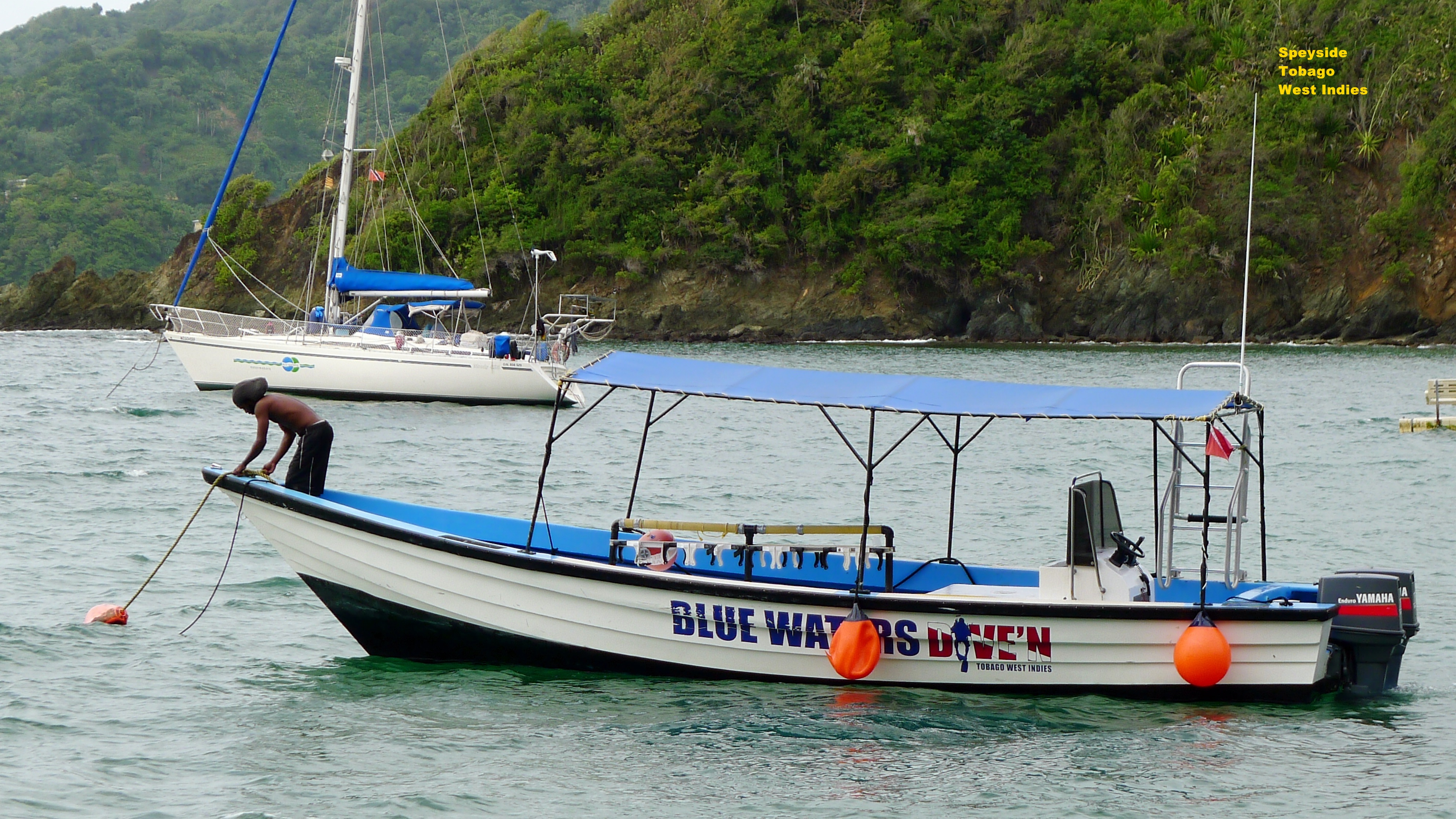 Speyside - Popular diving sites at Manta Reef and Angel Reef